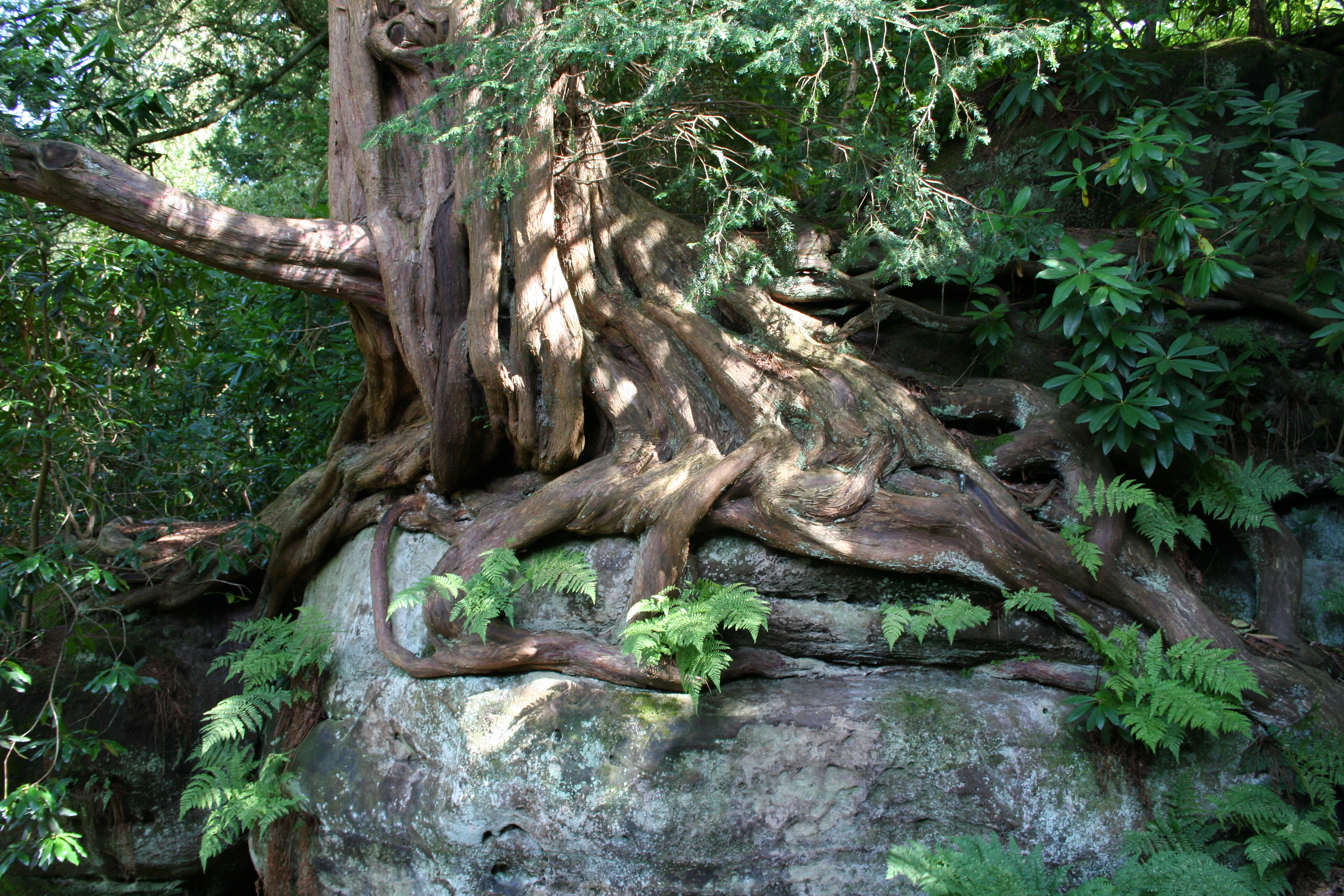 Roots of Taxus baccata at Wakehurst Place, UK